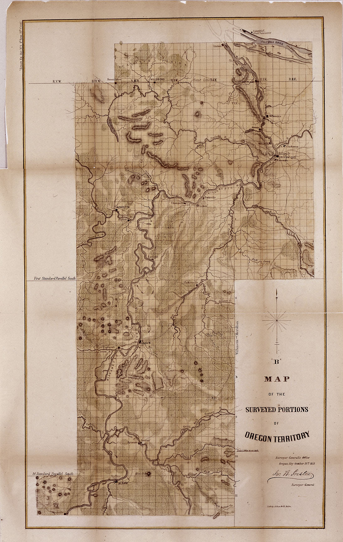 Preston's work provided the basis for land claims in the newly-established Oregon Territory.